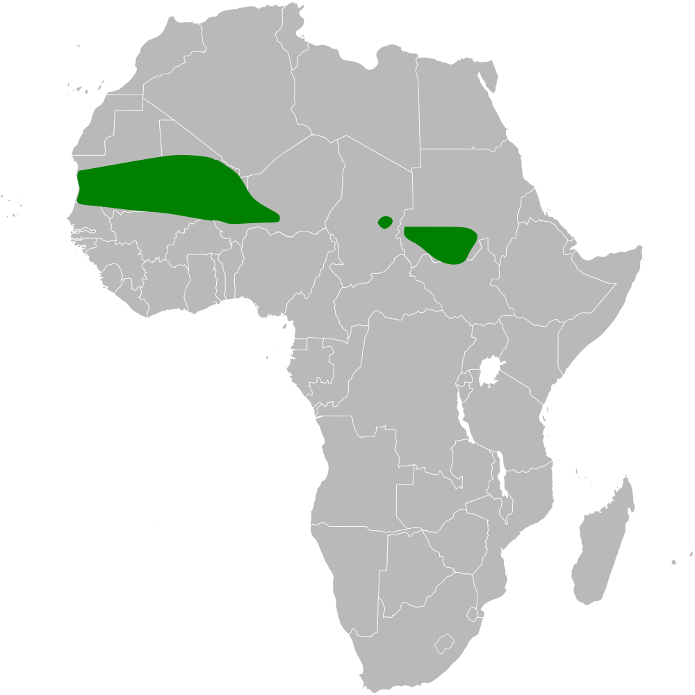 Mirafra cordofanica distribution map; using BlankMap-Africa.svg, based on